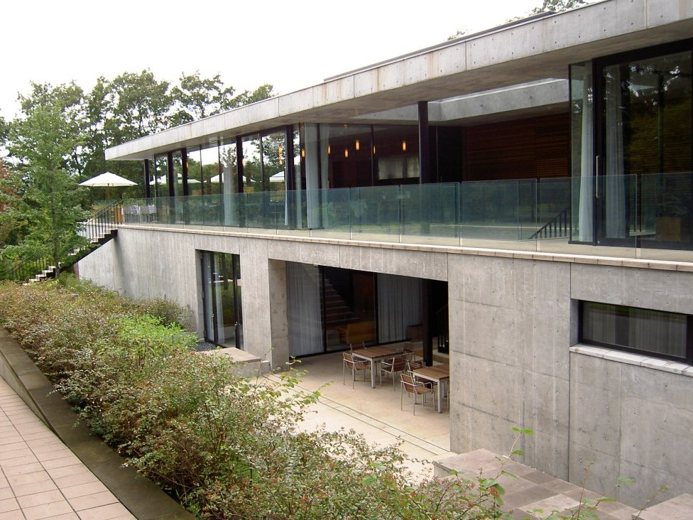 The Niki Club, a luxury resort in Nasu highland, Japan